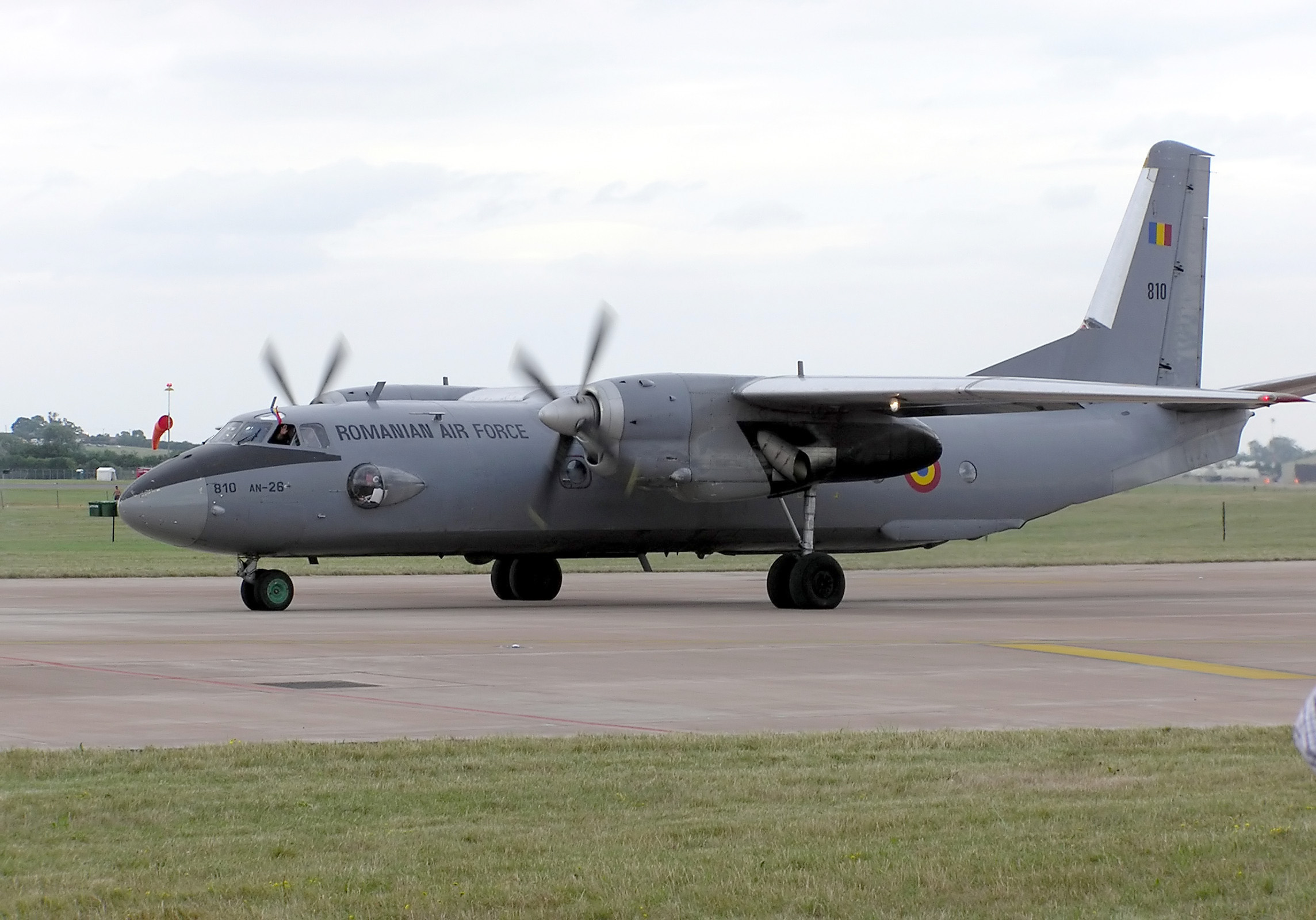 Romanian Air Force Antonov AN-26 at the Royal International Air Tattoo, Fairford, Gloucestershire, England. Photographed by Adrian Pingstone in July 2005 and released to the public domain.